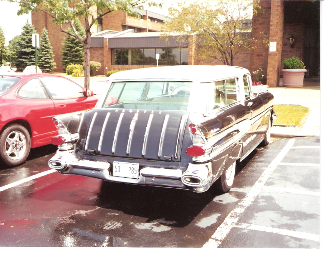 1957 Pontiac Star Chief Custom Safari 2-door station wagon